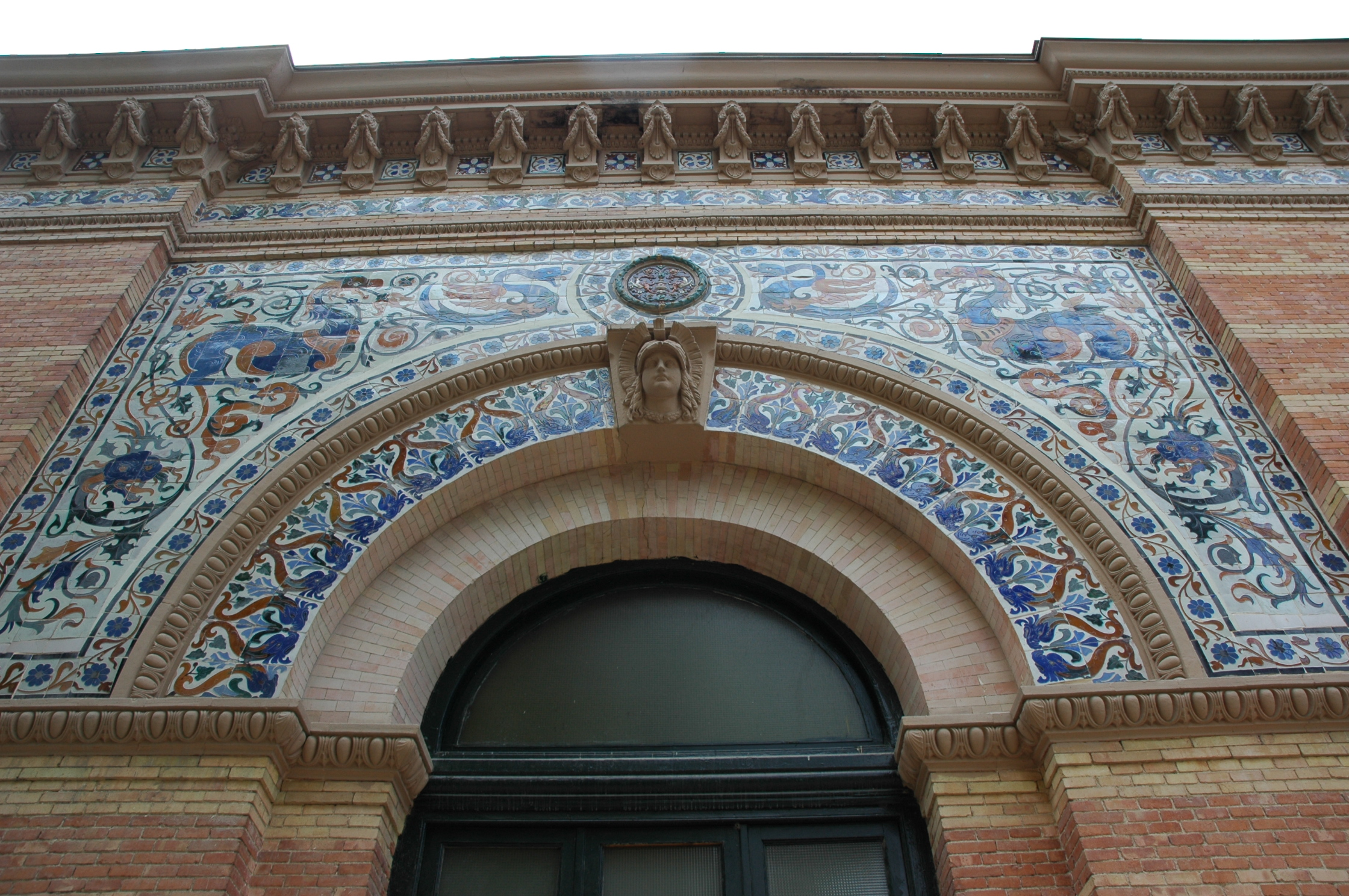 Palacio de Velázquez, in the Retiro Park in Madrid (Spain). Designed in 1881 by architect Ricardo Velázquez Bosco and built from 1881 to 1883.